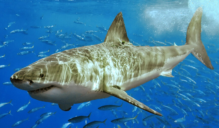 Great white shark at Isla Guadalupe, Mexico, August 2006. Shot with Nikon D70s in Ikelite housing, in natural light. Animal estimated at 11-12 feet (3.3 to 3.6 m) in length, age unknown.